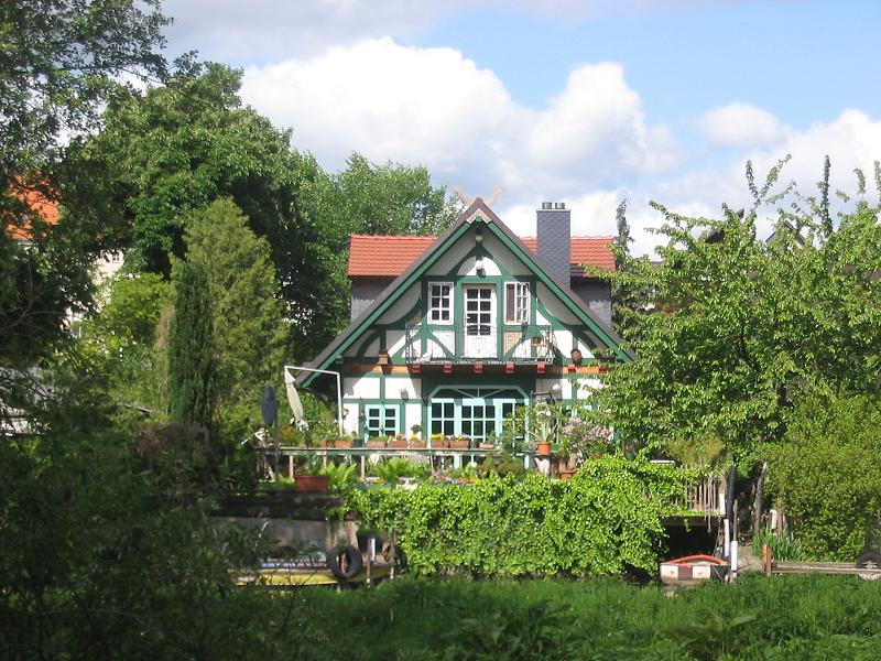 Settlement of weekend cottages at Großem Jürgengraben (canal) in Tiefwerder. Tiefwerder is a former village, founded in 1816, in Berlin-Spandau and an ait in Berlin-Wilhelmstadt from river Havel. The Tiefwerder Wiesen (meadows) are a protected area (german: Landschaftsschutzgebiet) and Berlins last natural flood plain and last spawn-area for the Northern pike.